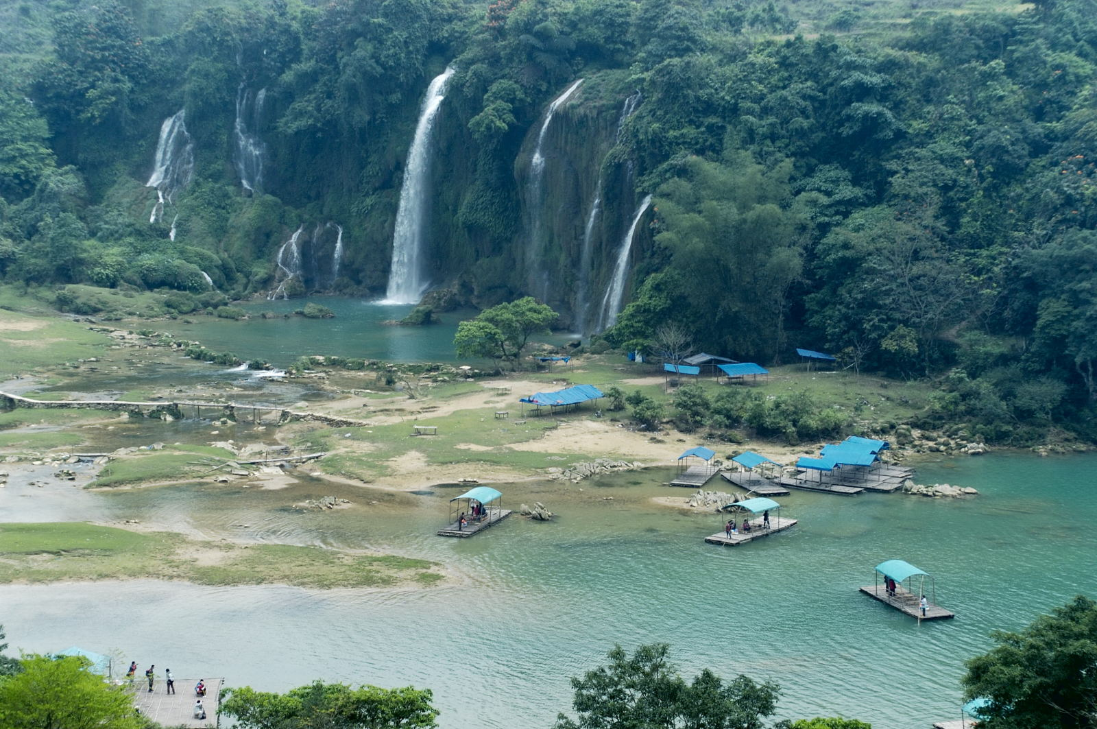 Ban Gioc Falls